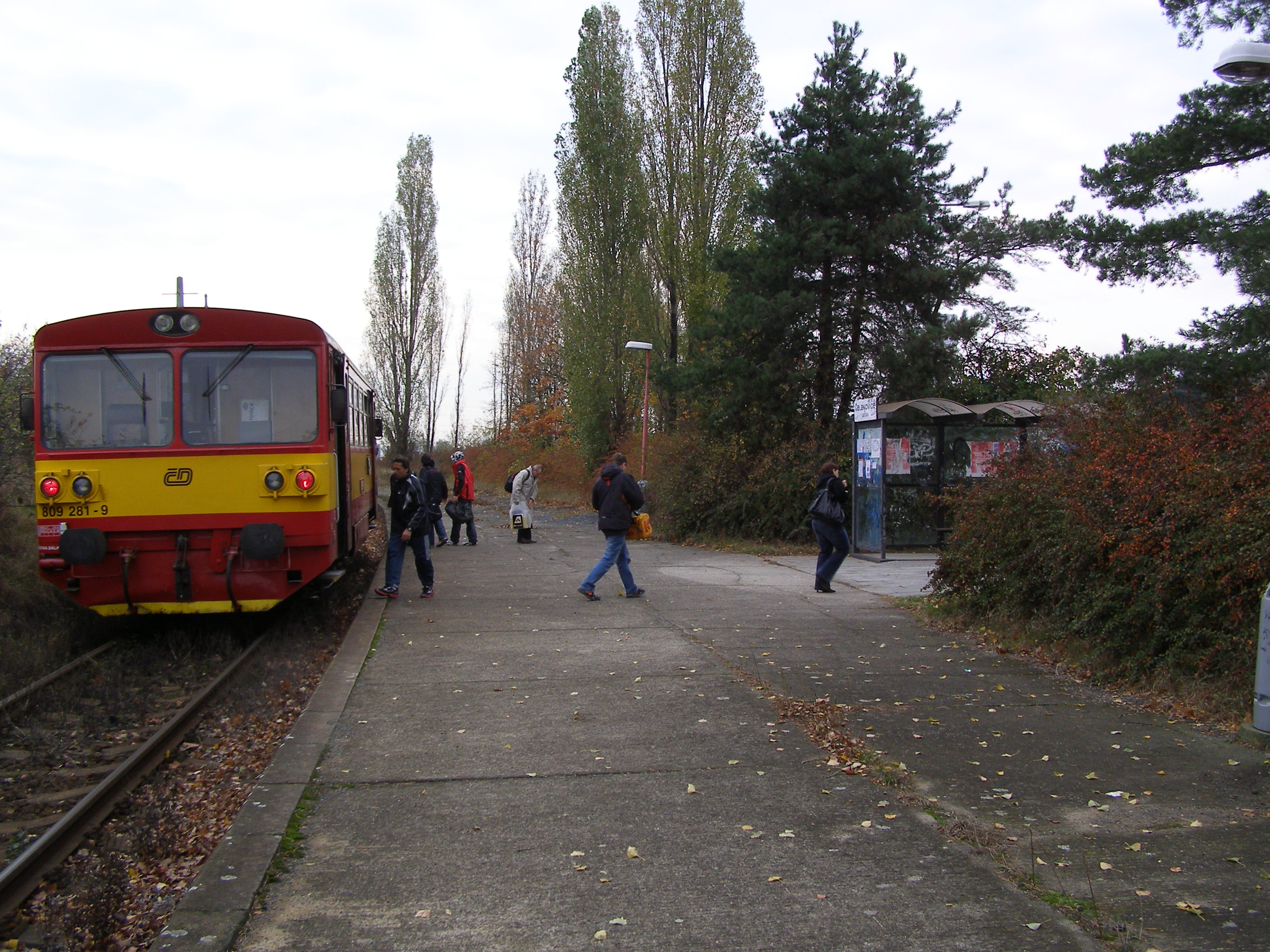 rail station Celakovice zastavka